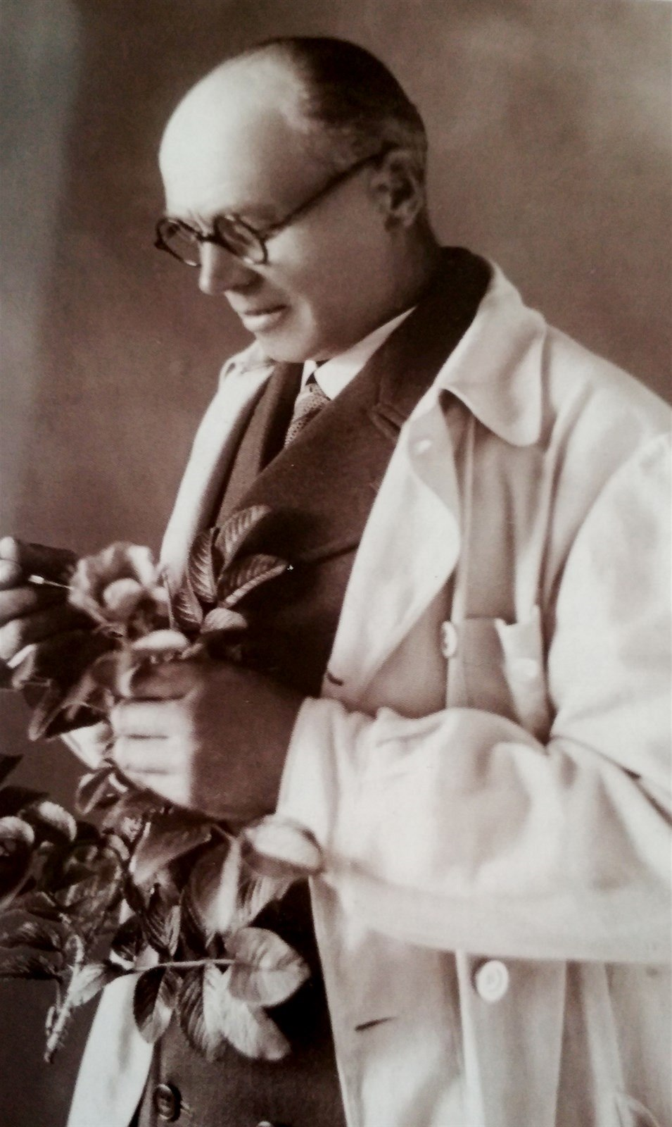 Jan Böhm, rose grower from Blatná